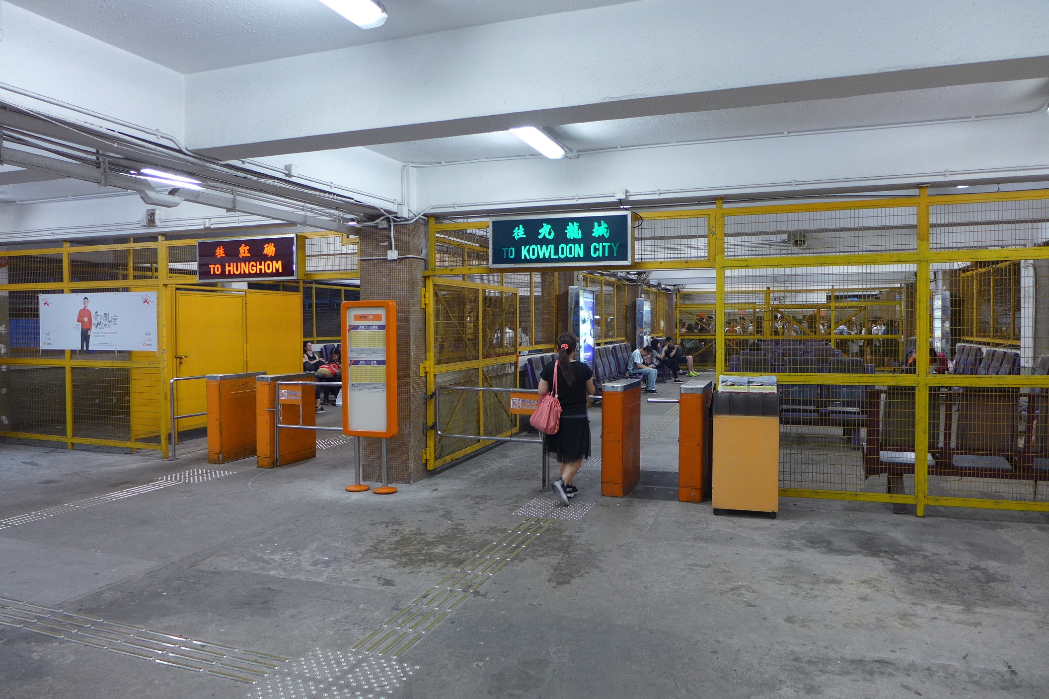 North Point Ferry Pier Entrance Gate